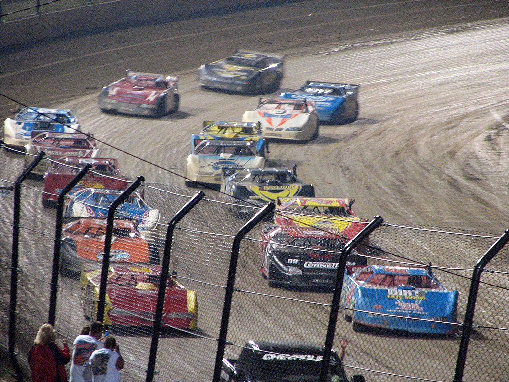 The starting field of the feature race at Eldora Speedway on 6 Sep 2006 at the Prelude To The Dream. This is a charity fundraiser race with NASCAR greats driving late model stock cars on a dirt track.